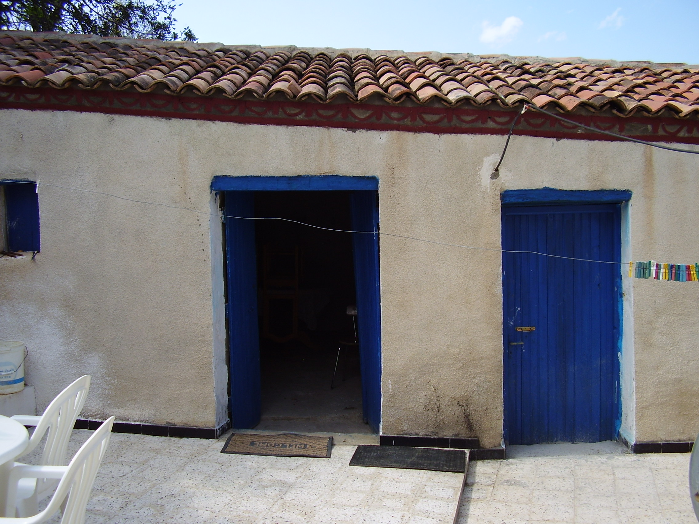 Agmun At Slimane (Kabylia), Zidane's father home